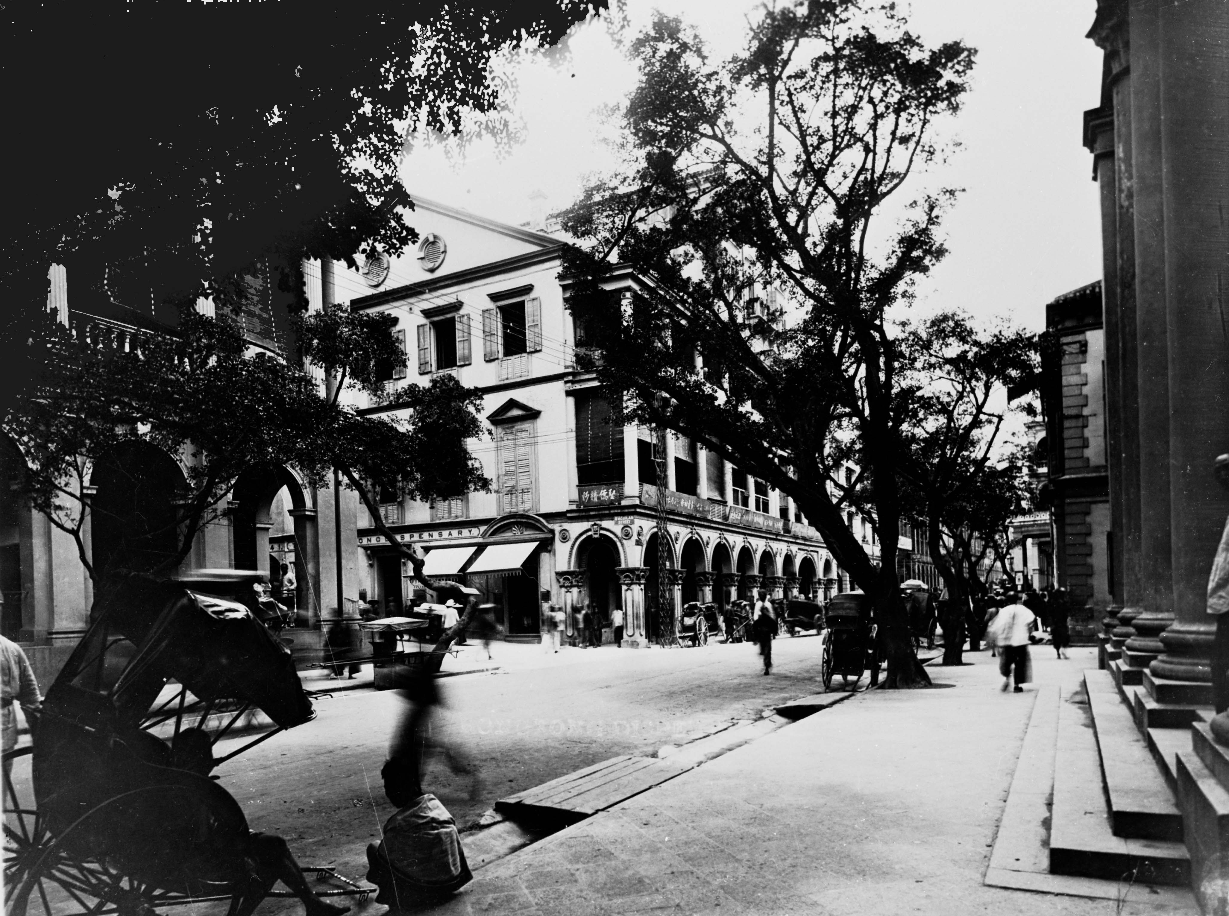 First generation Hong Kong Club Building, situated on the corner of D'Aguilar Street and Queen's Road, opposite the Supreme Court. The D'Aguilar Street street sign on the corner of the building is clearly visible, confirming address.Note: The Hong Kong Club Building is most probably the building on the left, not the one in the centre of the picture.